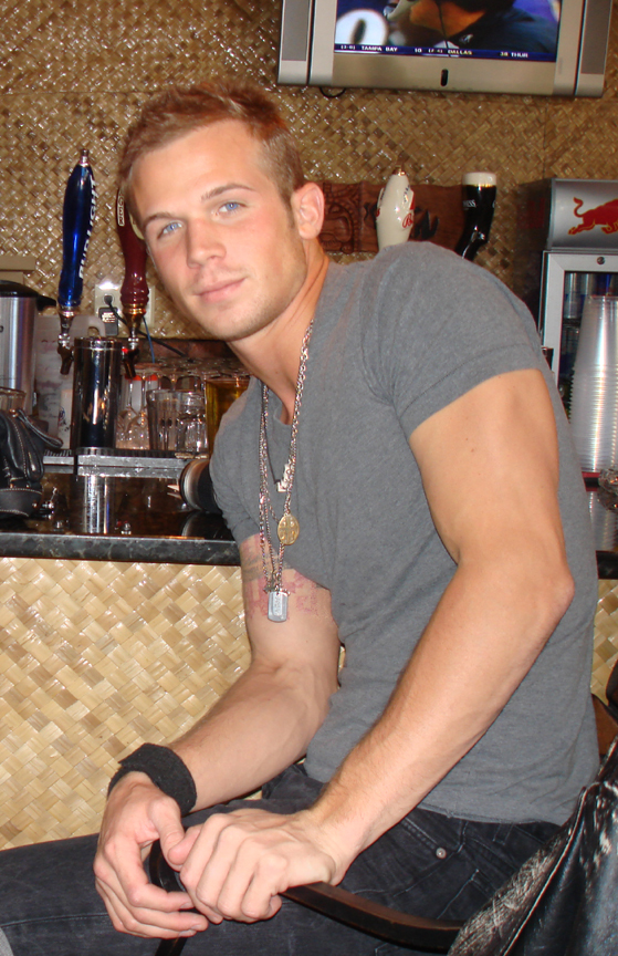 Cam at at bar in LA